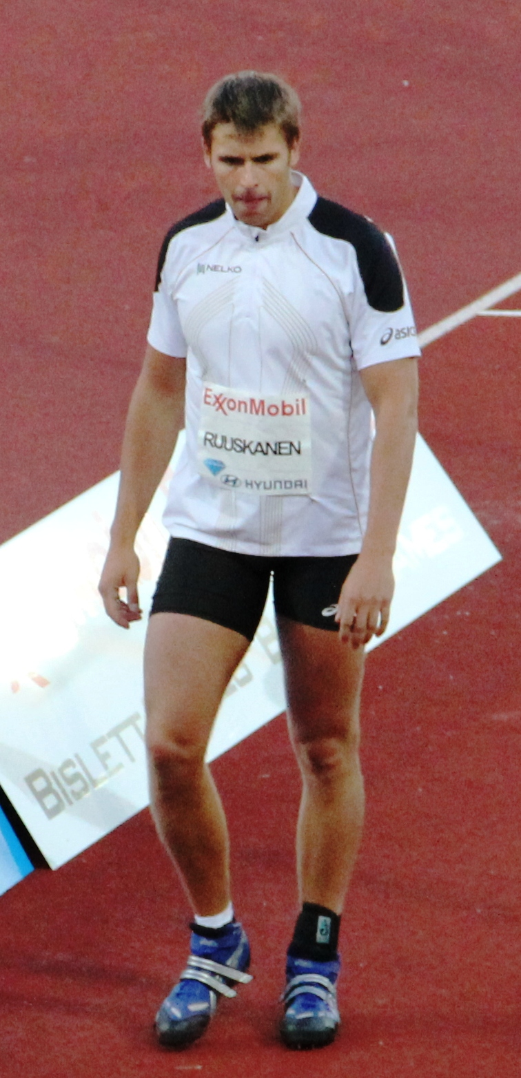 Antti Ruuskanen at the 2010 Bislett Games